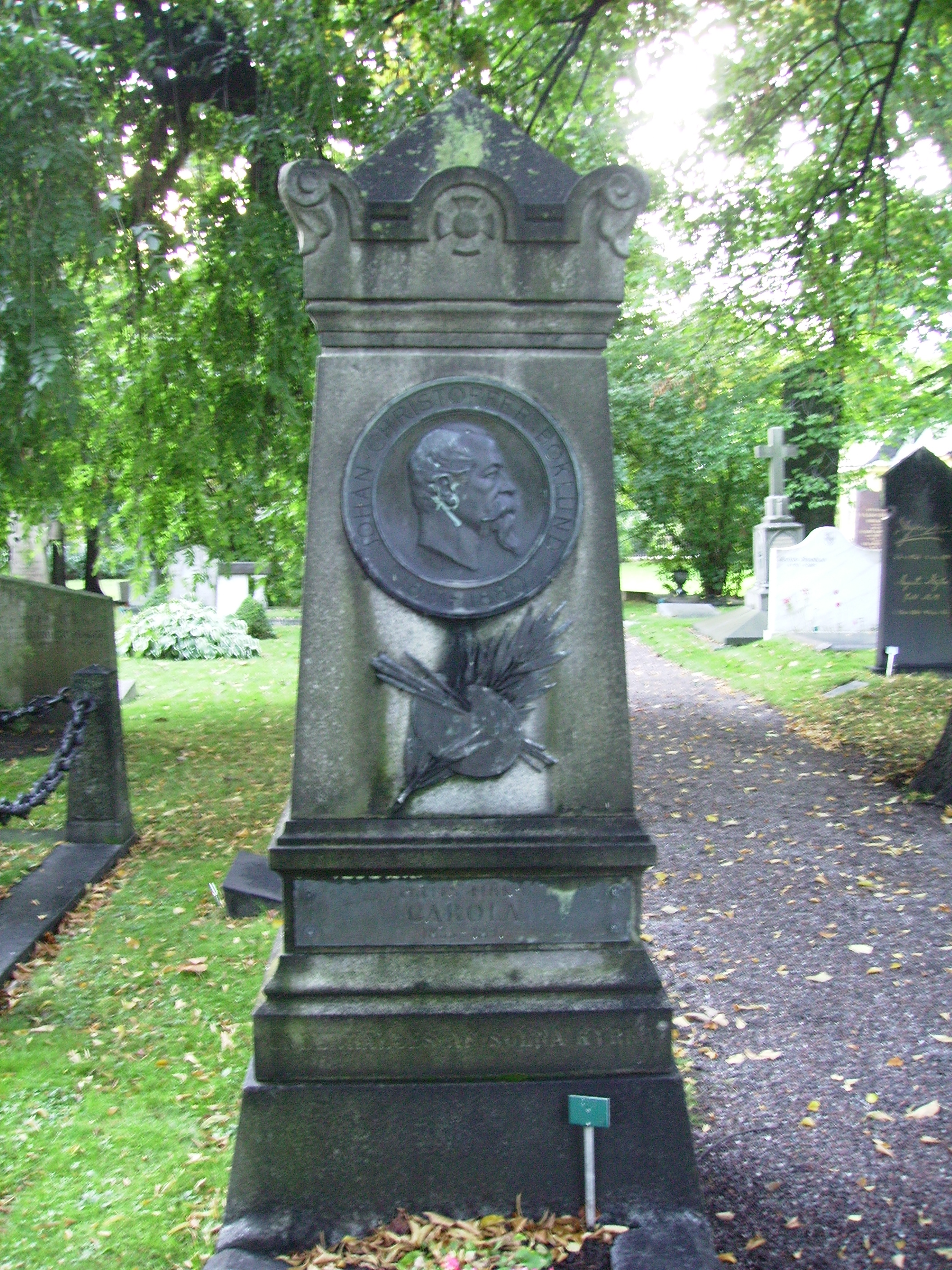 Picture of Johan Christoffer Boklund's grave at Solna kyrkogård